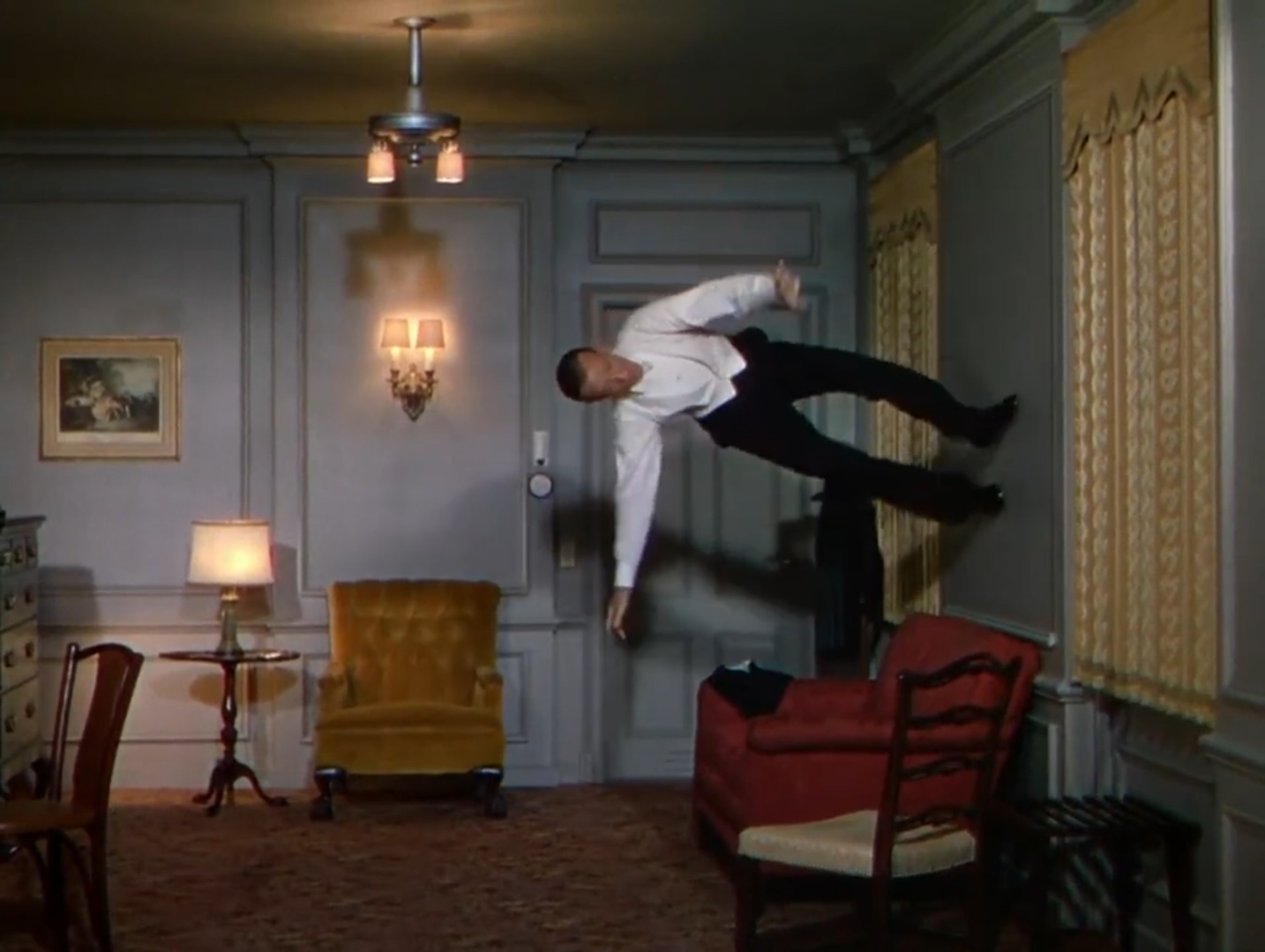 This is a movie screenshot from the film Royal Wedding. It illustrates Fred Astaire performing a song and dance routine to "You're All the World to Me" composed by Burton Lane (music) and Alan Jay Lerner (lyrics). To film the scene, the room and camera were constructed as a rotatable unit, and furniture was fixed in place.[1]